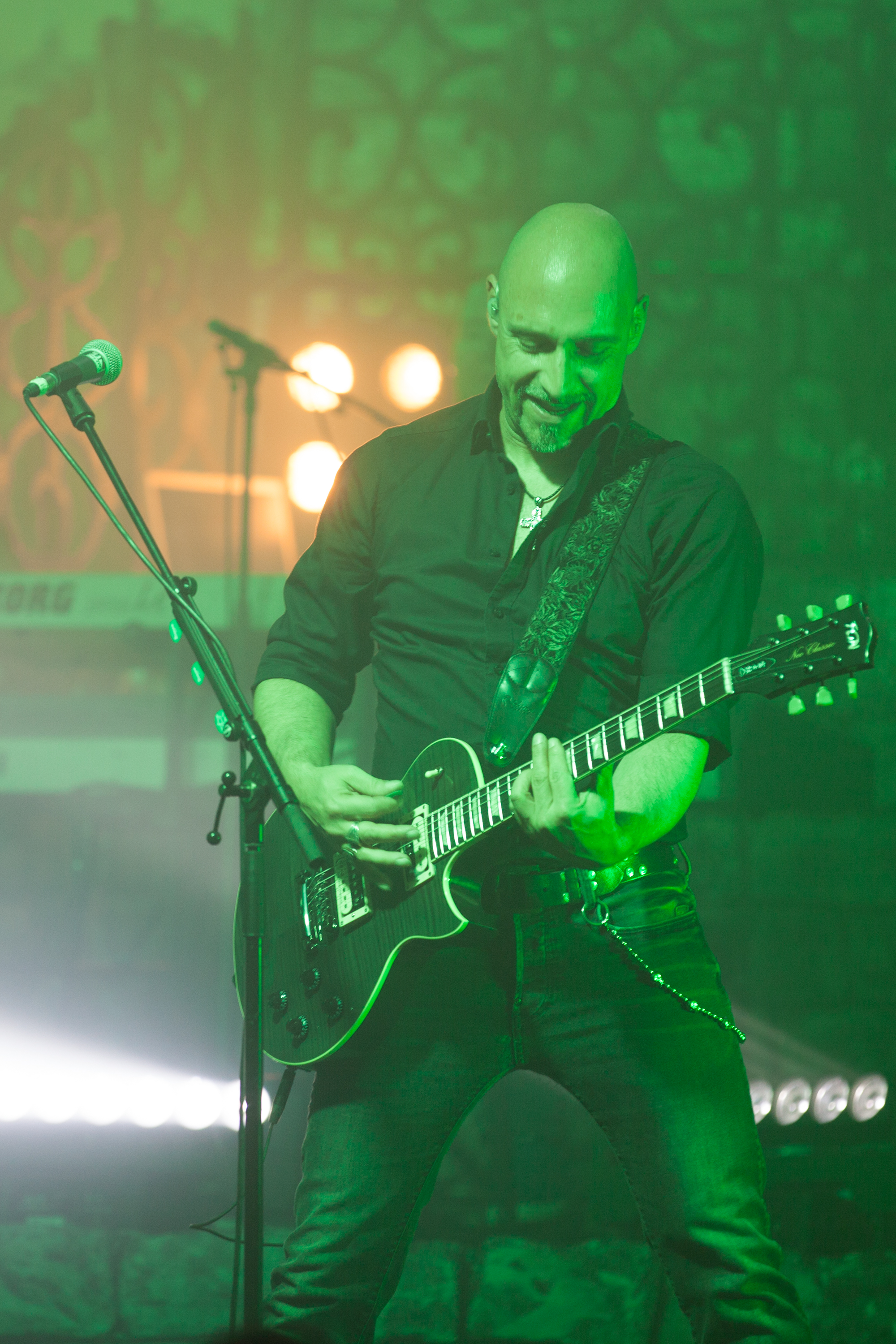 Avantasia at Turbinenhalle Oberhausen on 20th March 2016